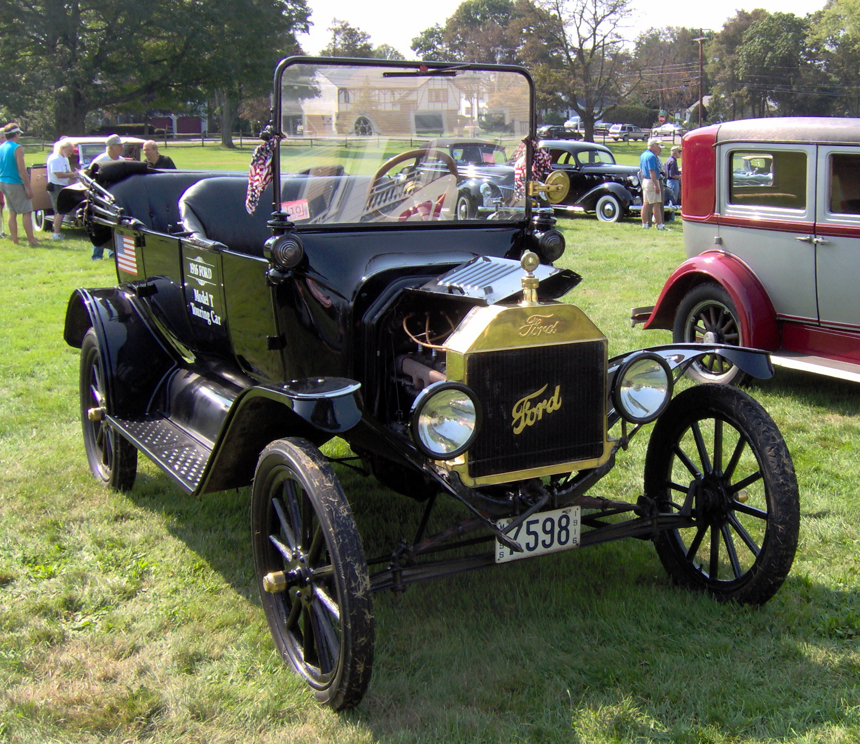 1916 Ford Model T touring car